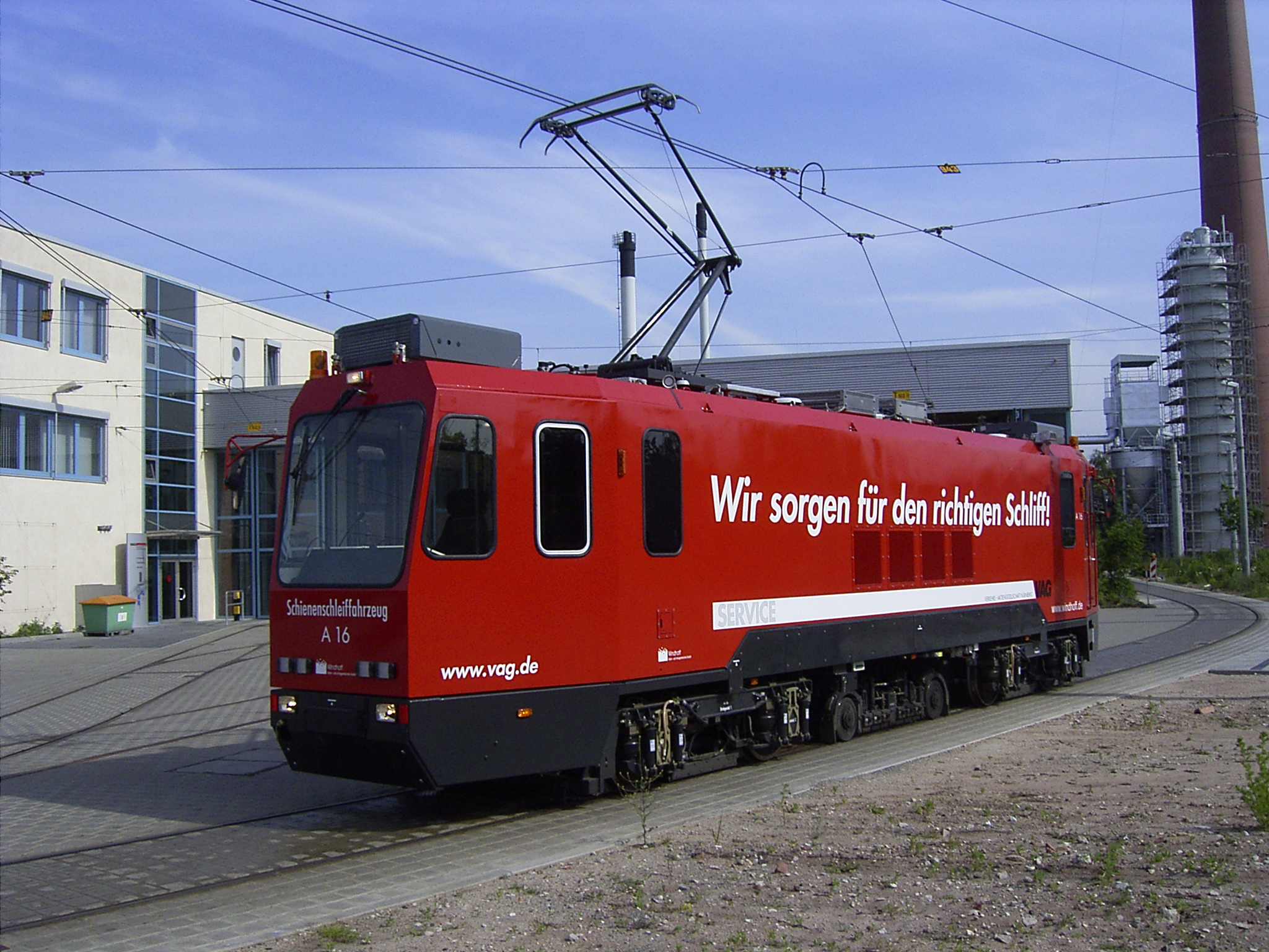 Windhoff Rail Grinding Vehicle for VAG, Nuremberg, Germany